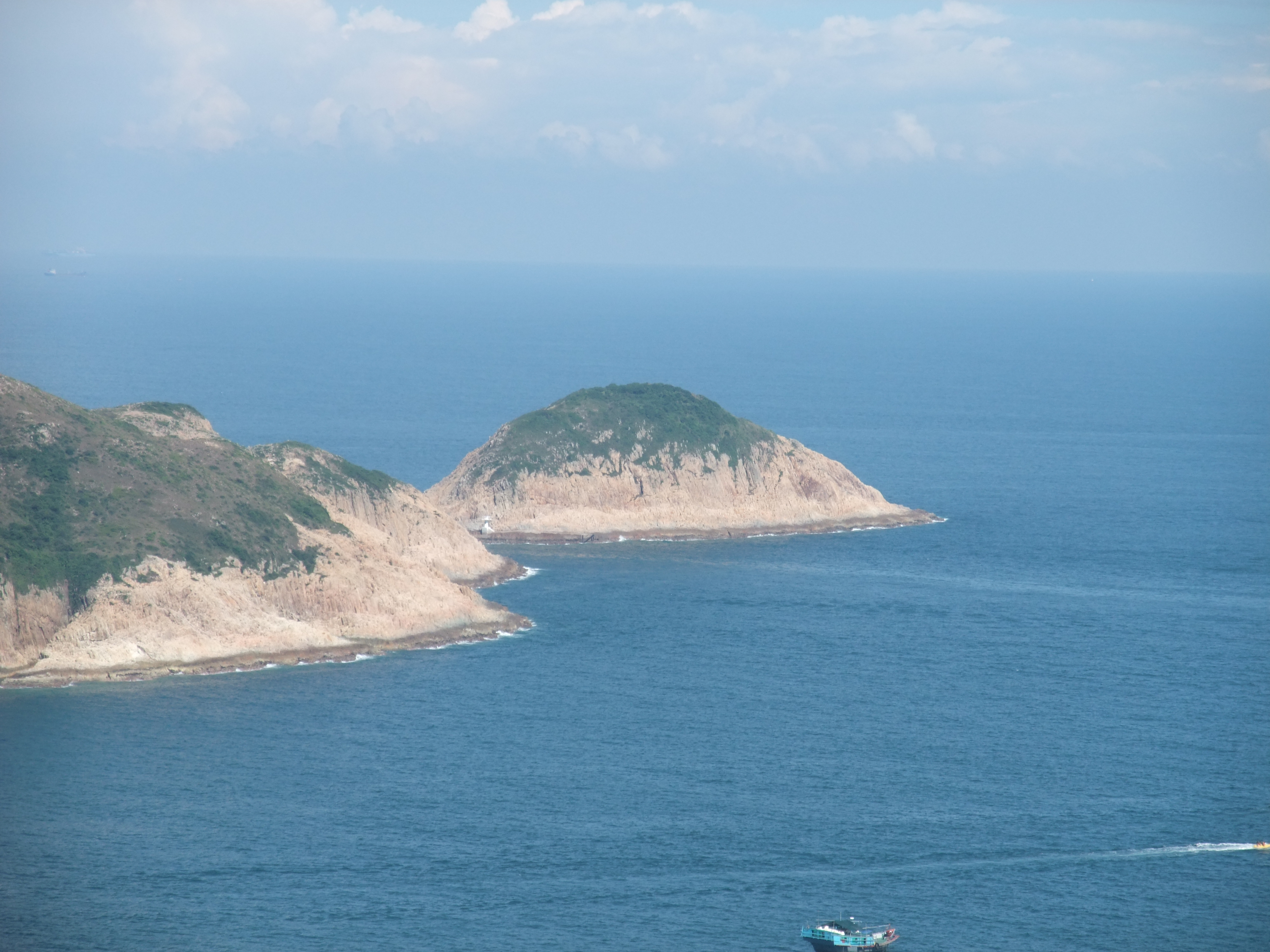 Photo of Tsang Pang Kok and Conic Island